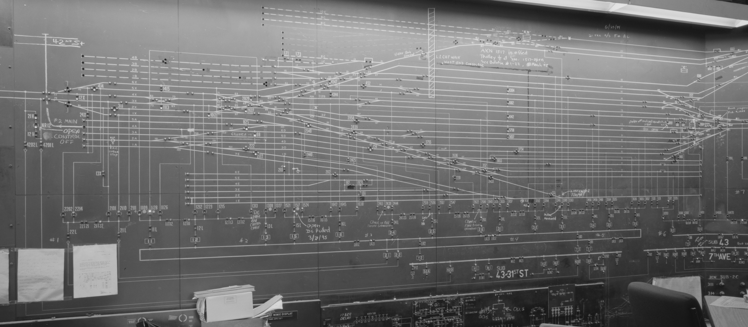 View of a single-line diagram of the power dispatchers panel at Substation 43, in the New York Terminal Service Plant building, part of the Pennsylvania Station complex in New York City. Built by the Pennsylvania Railroad c. 1931.